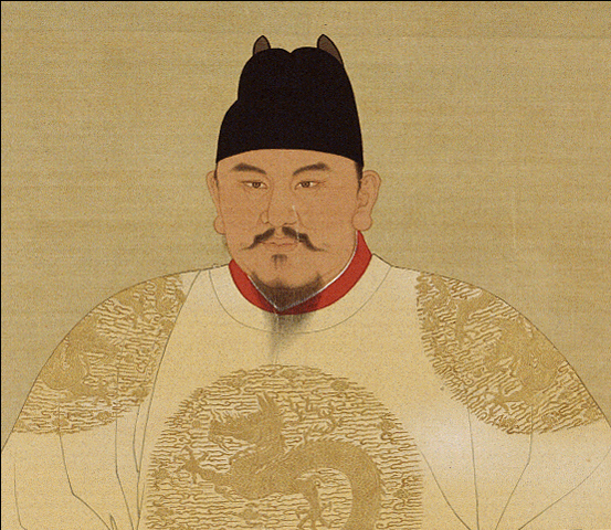 Official court painting (detail) of the Hongwu Emperor (reigned 1368-1398 AD), Ming Dynasty, China.